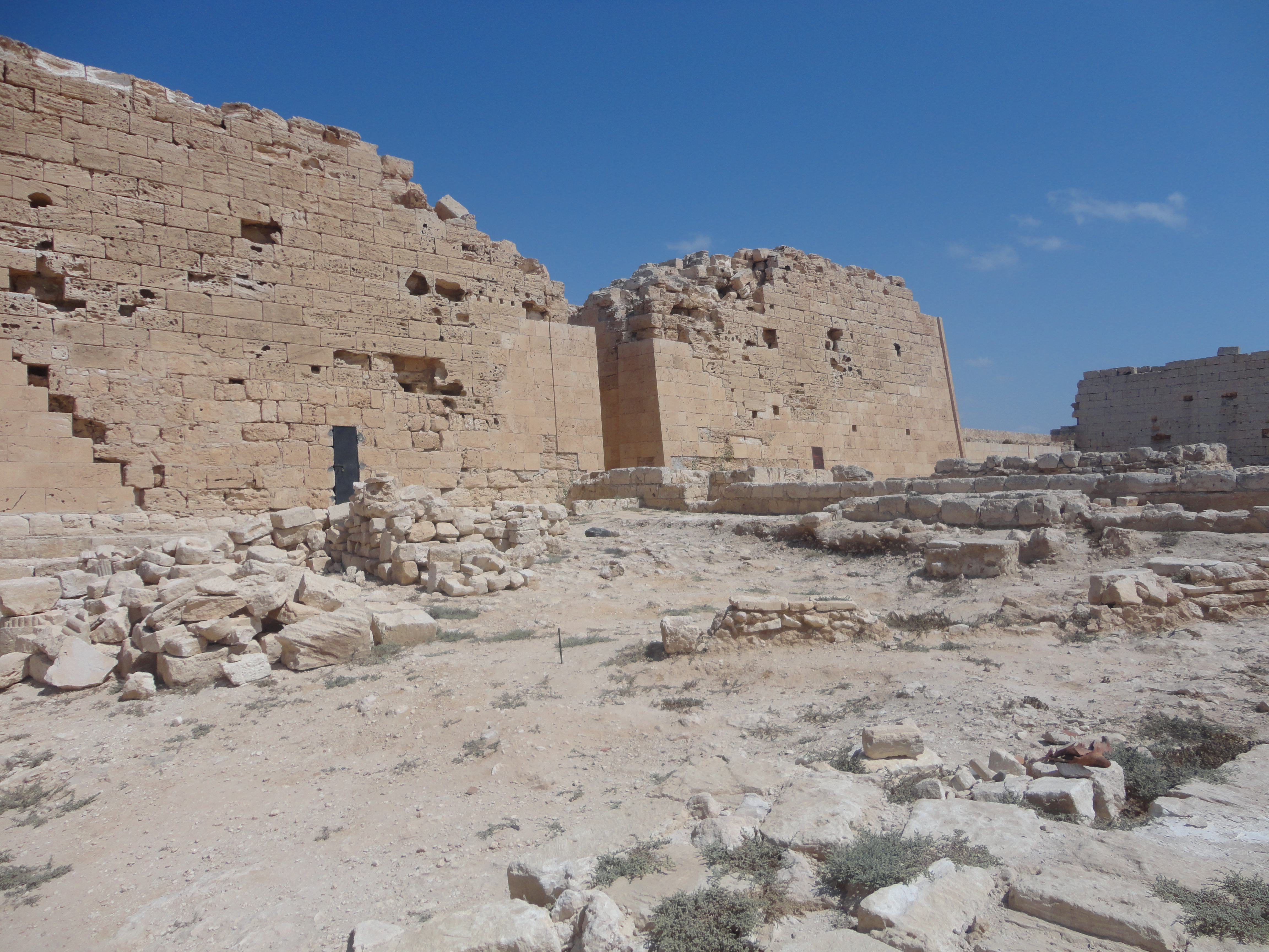 Magna temple1